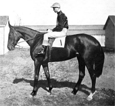 American racemare, Endurance by Right (Inspector B - Early Morn by Silvester). Champion 2-year-old filly of 1901.